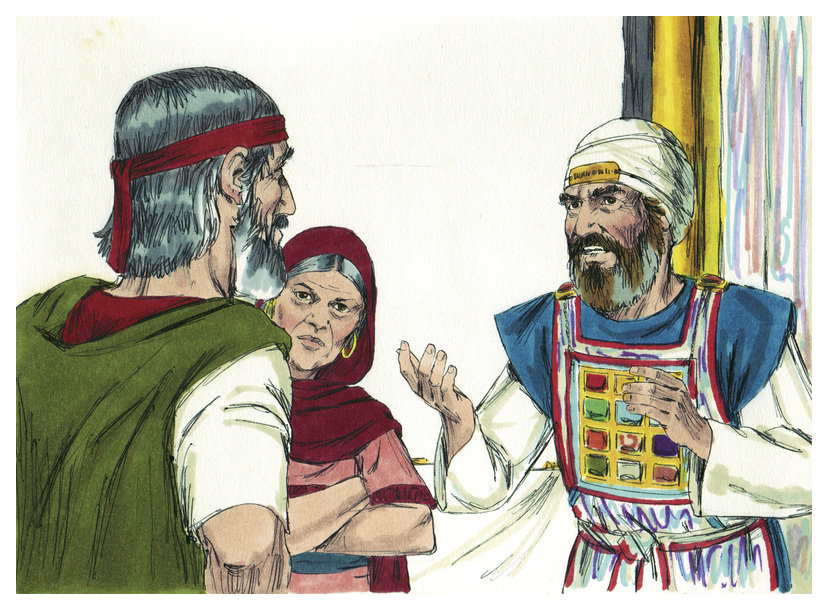 Biblical illustration of Book of Numbers Chapter 12